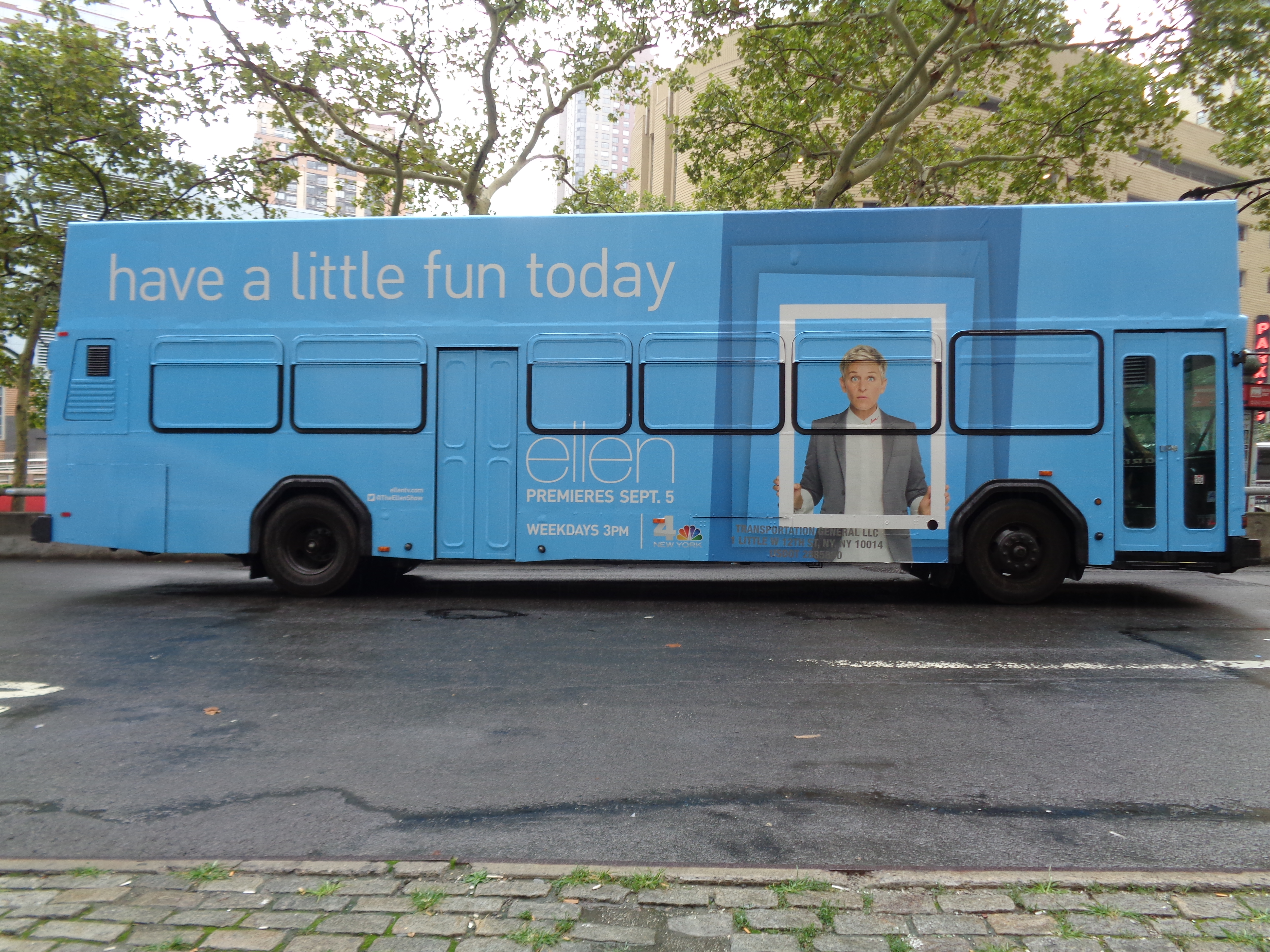 A tour bus wrapped in an advertisement for the Ellen DeGeneres Show, at Trinity Place between Morris Street and Edgar Street in the Financial District, Manhattan.